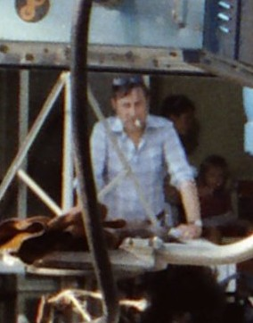 Guy Grosso during the shooting of the french movie The Gendarme and the Creatures from Outer Space.